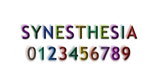 Modified version of Image:Synaestheticwiki3.png created by User:Saeghwin to be used with American English version of synesthesia page. See the talk page :en:Talk:Synesthesia/Archive 2#Spelling.21_We_need_consistency...| Image modified Aug. 26, 2006 by user:Edhubbard. Image inherits from PD-self from original creator.